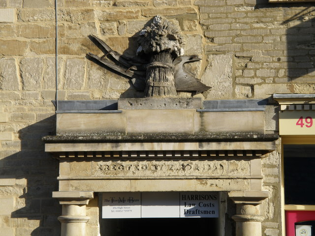 Detail above the door at Thrapston Corn Exchange A plough and a sheaf of corn adorn the space above the doorway.